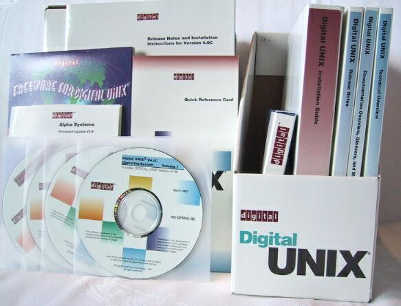 Digital Unix distribution media for Alpha machines, showing manuals, CDROMs, etc.